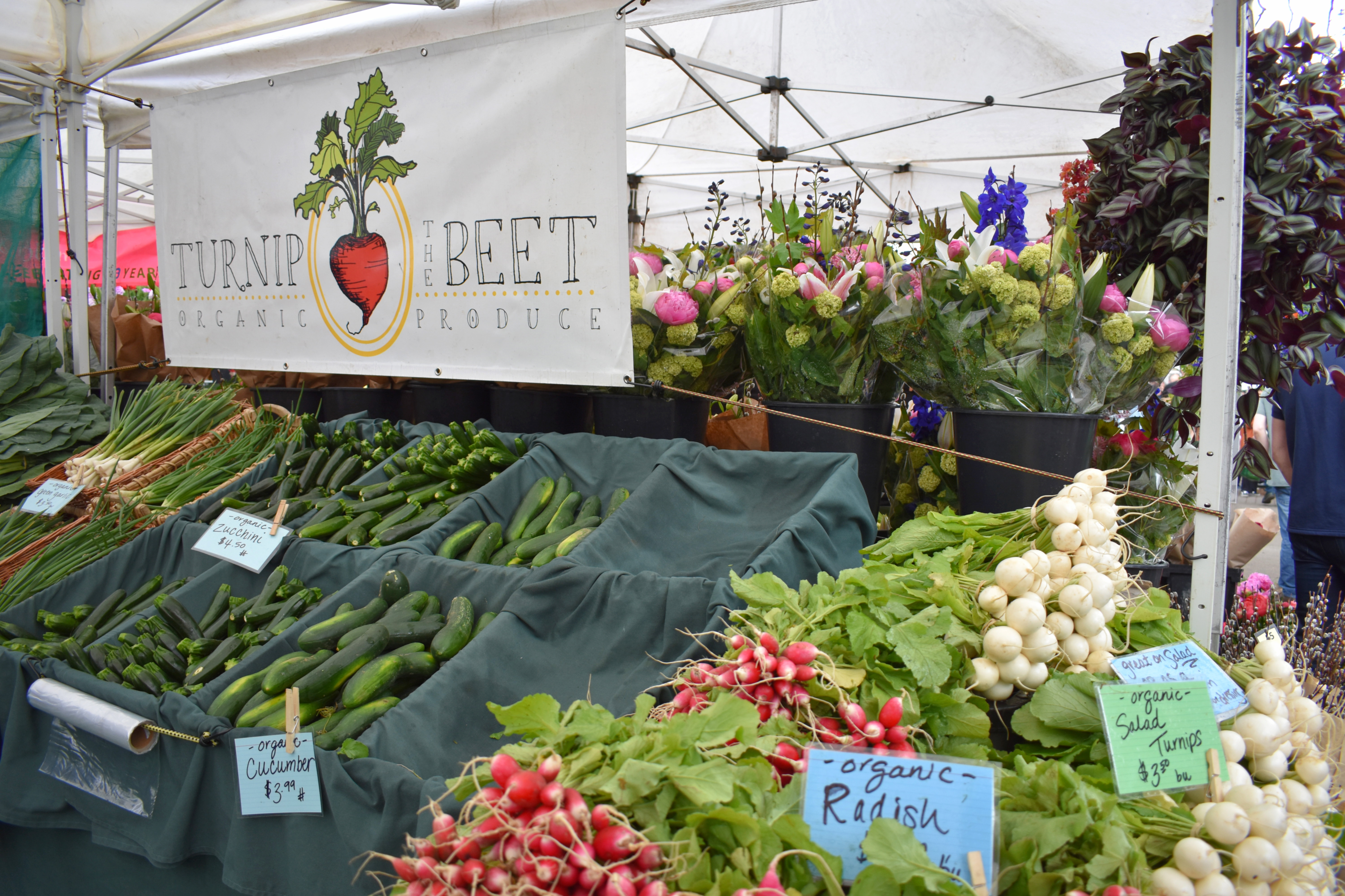 The Saturday Market in Eugene, Oregon, celebrating its 50th year.